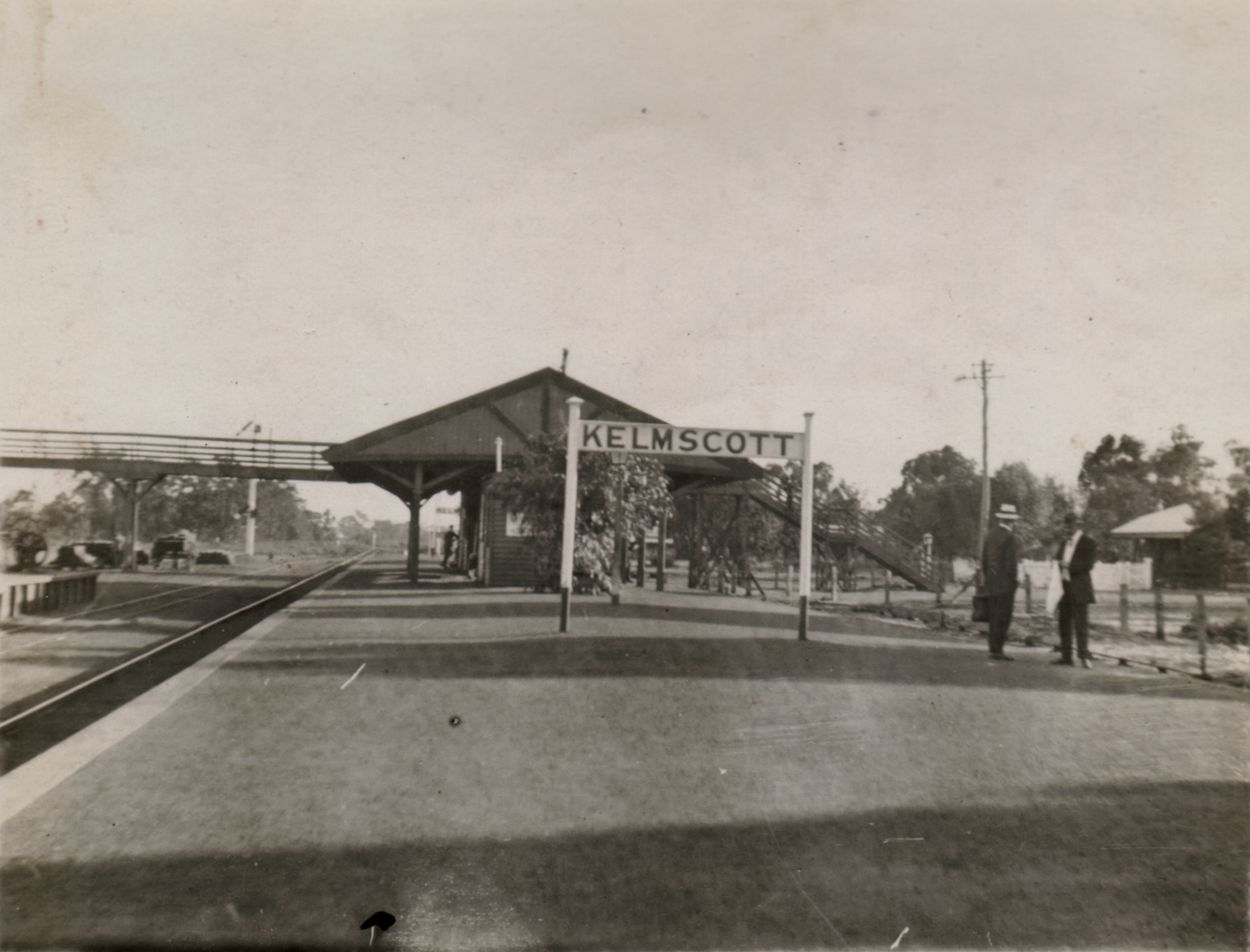 Kelmscott Station, Western Australia.